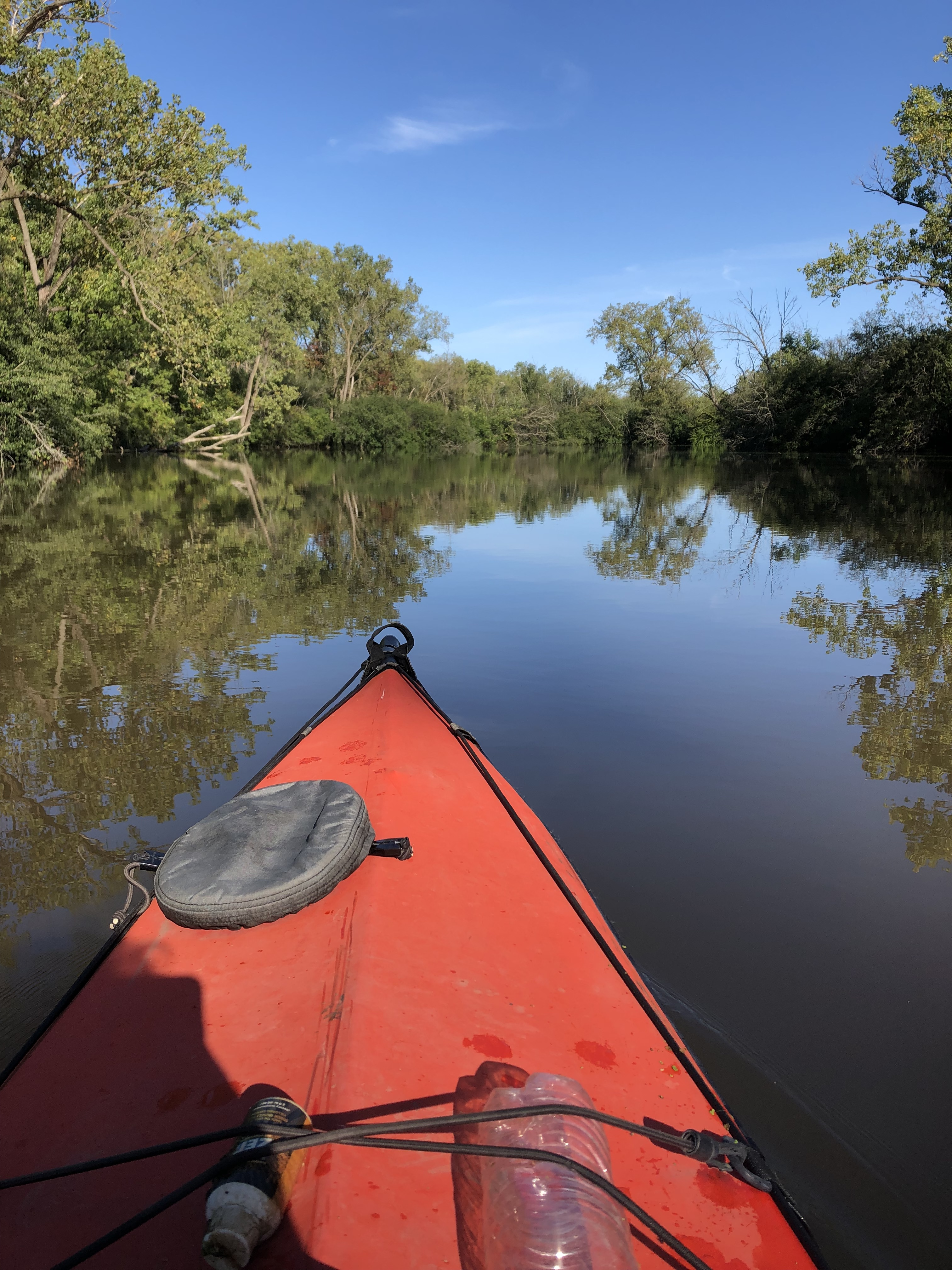 Kayak on West Lagoon (summer 2019)